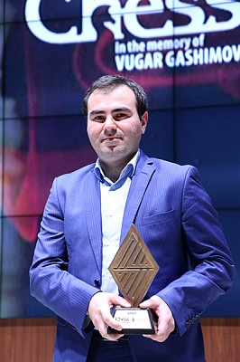 Shakhriyar Mamedyarov (chess player), Shamkir 2016